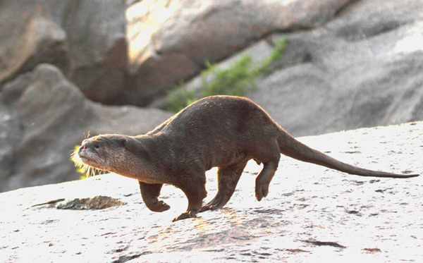 Smooth coated Otter seen on the rocky banks of River Tungabhadra near Hampi, Karnataka, India